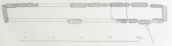 Plan of the gallery grave Atteln II